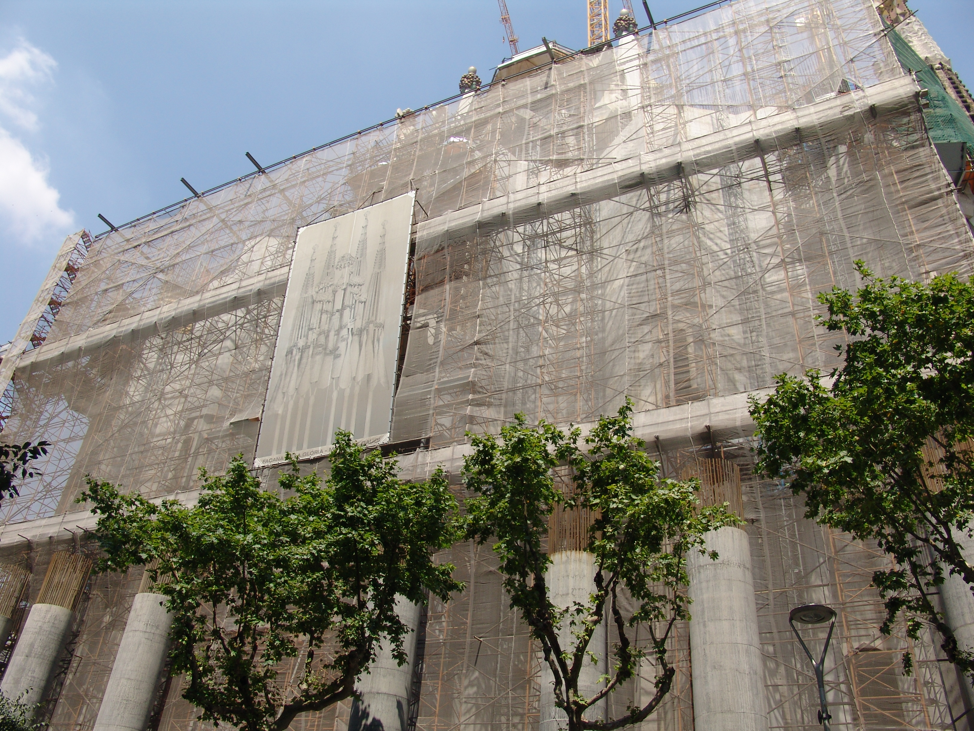 Glory facade of the Sagrada Familia in Barcelona